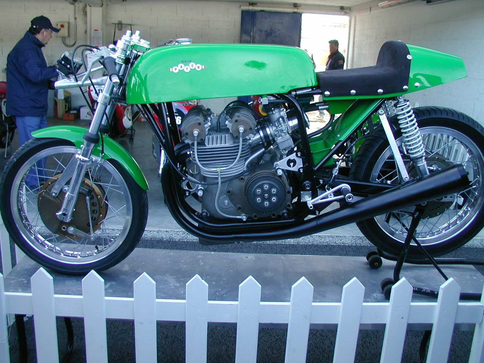 Paton 500 cc racing motorcycle Picture : Gérard Delafond